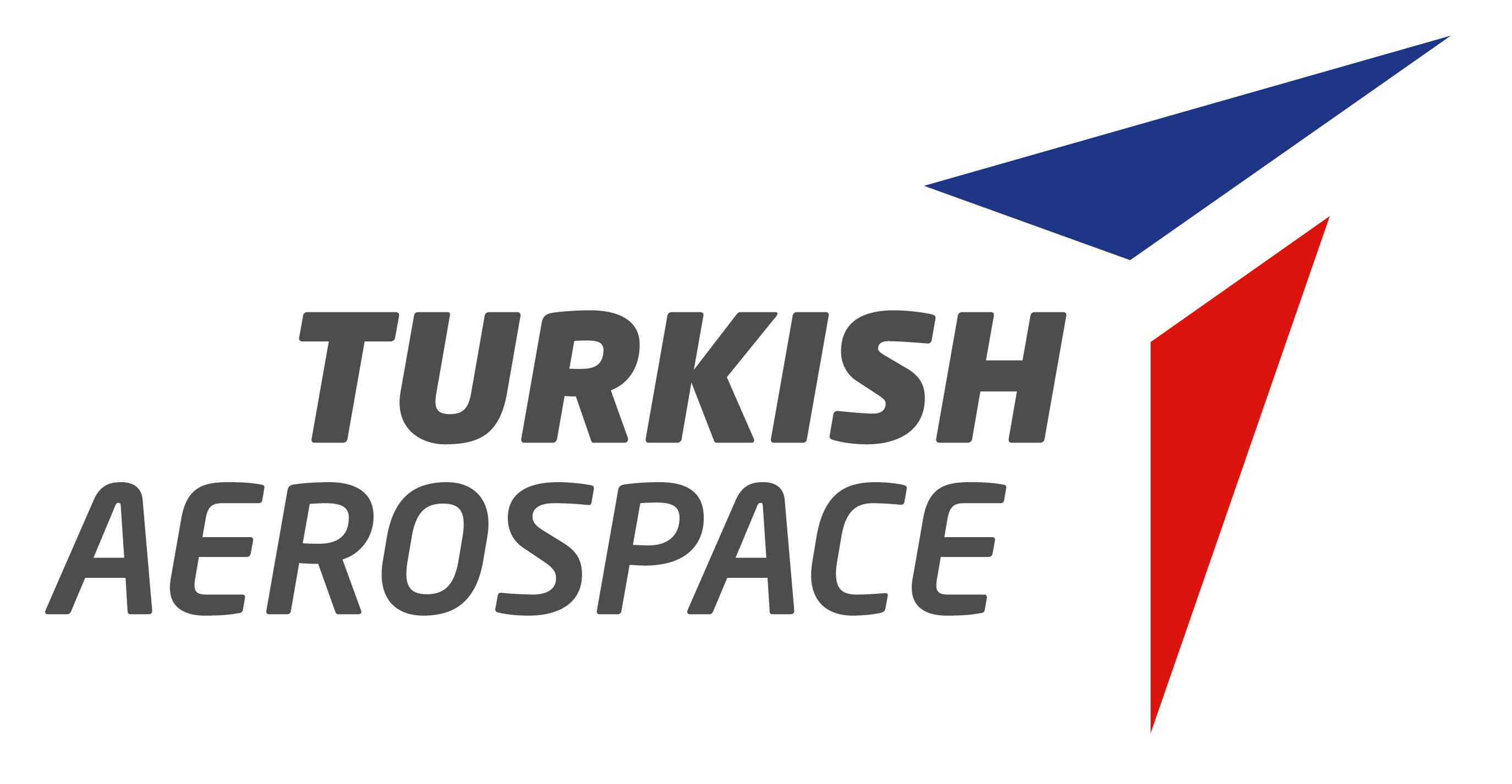 "Turkish Aerospace Industries Inc." logoTürkçe: "Türk Havacılık ve Uzay Sanayi A.Ş." logo